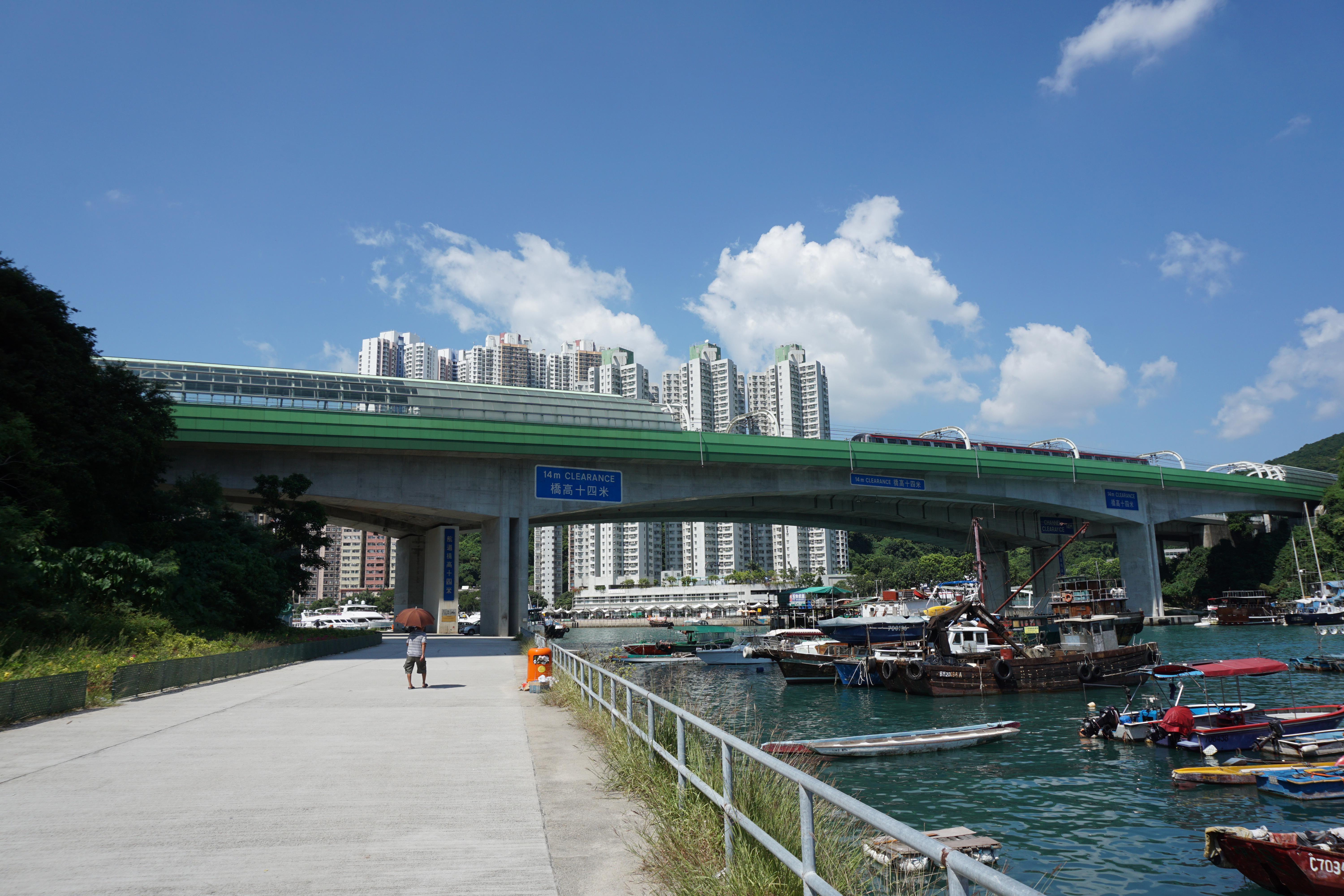 Aberdeen Channel Bridge in Ap Lei Chau, Hong Kong.